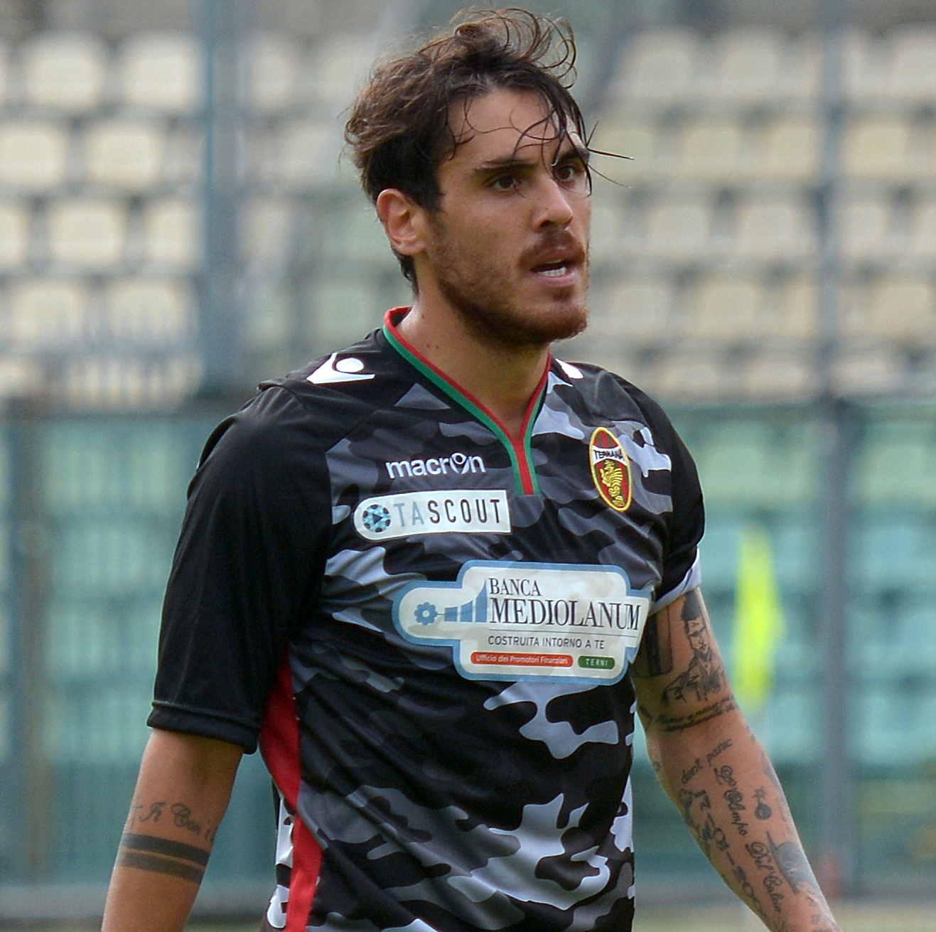 Nicolas Viola during the match Modena vs. Ternana